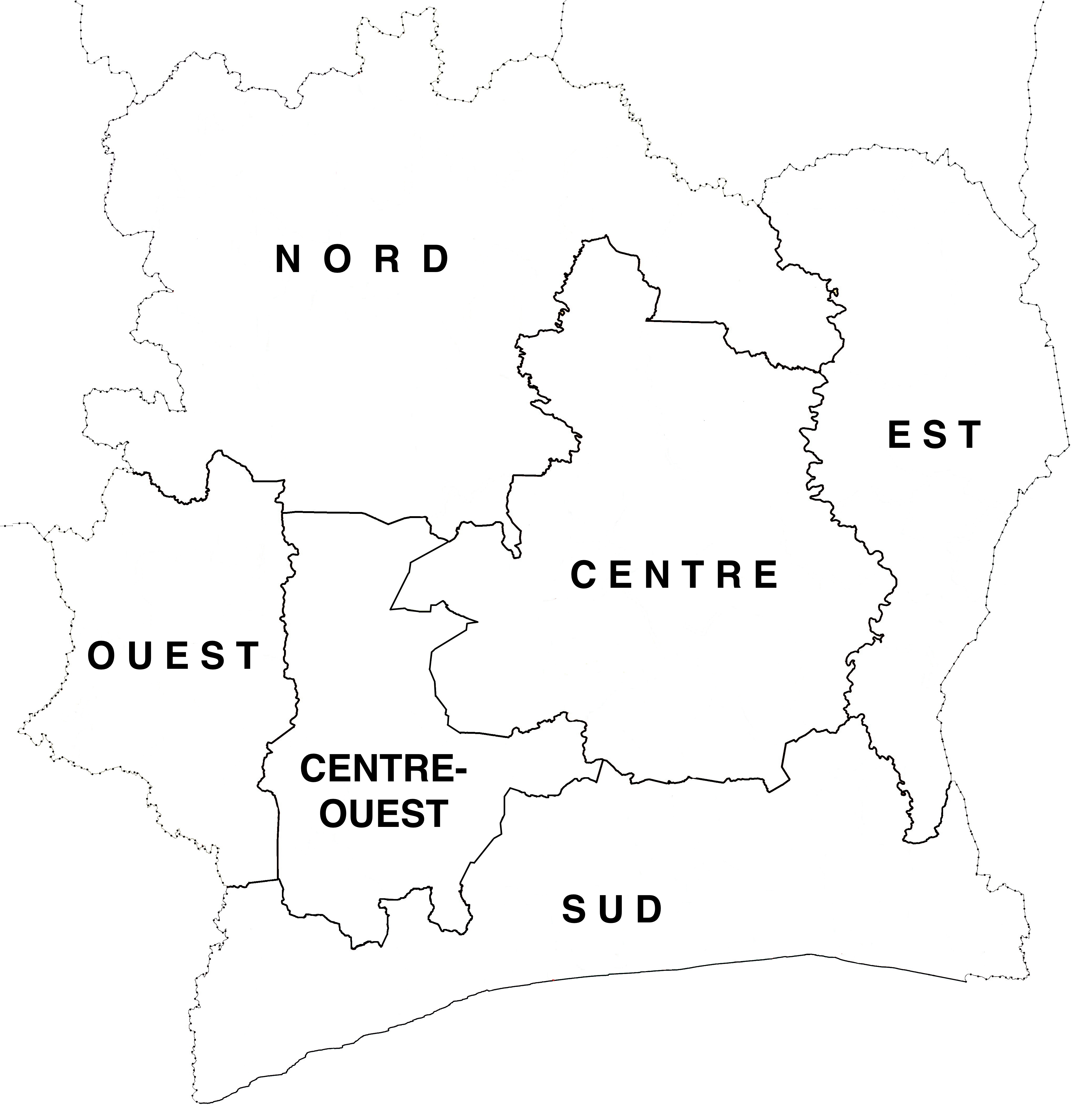 Labelled map of the departments of Côte d'Ivoire (1963–69).